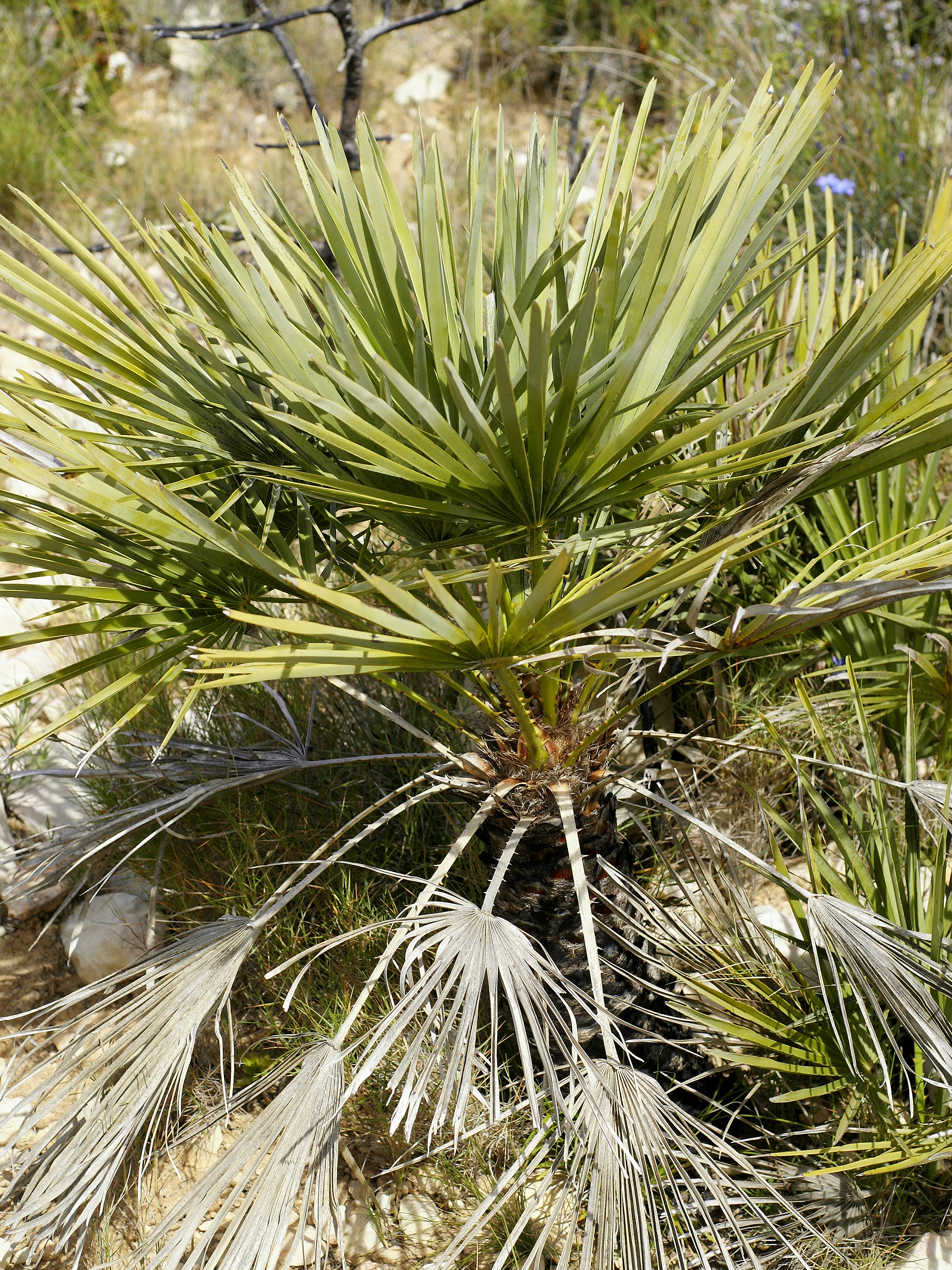 Plant near el Perelló, Catalonia, Spain